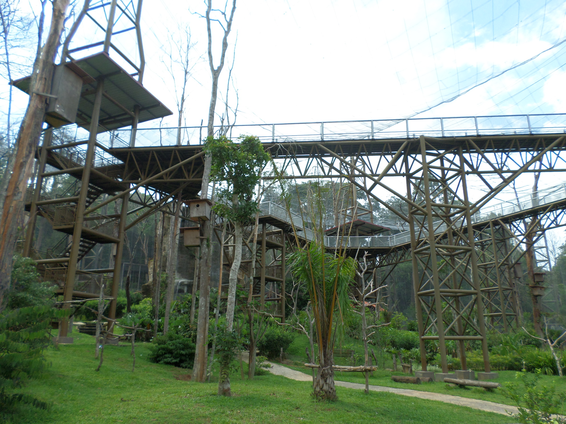 Melaka Bird Park, Ayer Keroh, Central Melaka, Melaka, MalaysiaBahasa Melayu: Taman Burung Melaka, Ayer Keroh, Melaka Tengah, Melaka, Malaysia